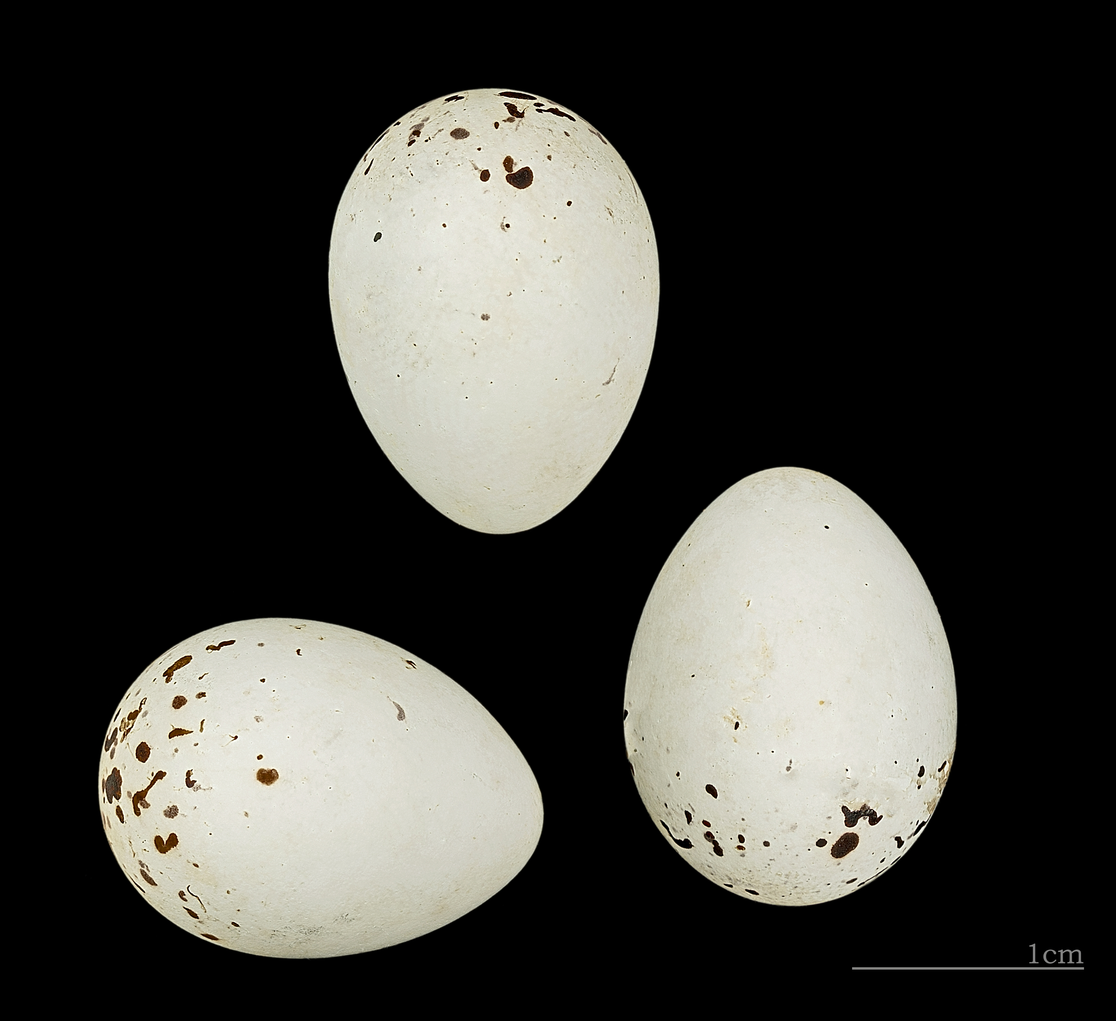 Egg of Yellow-breasted Greenfinch. Collection of Jacques Perrin de Brichambaut.